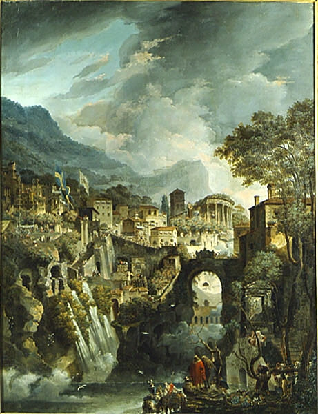 Gustav III's visit to Tivoli in 1784.